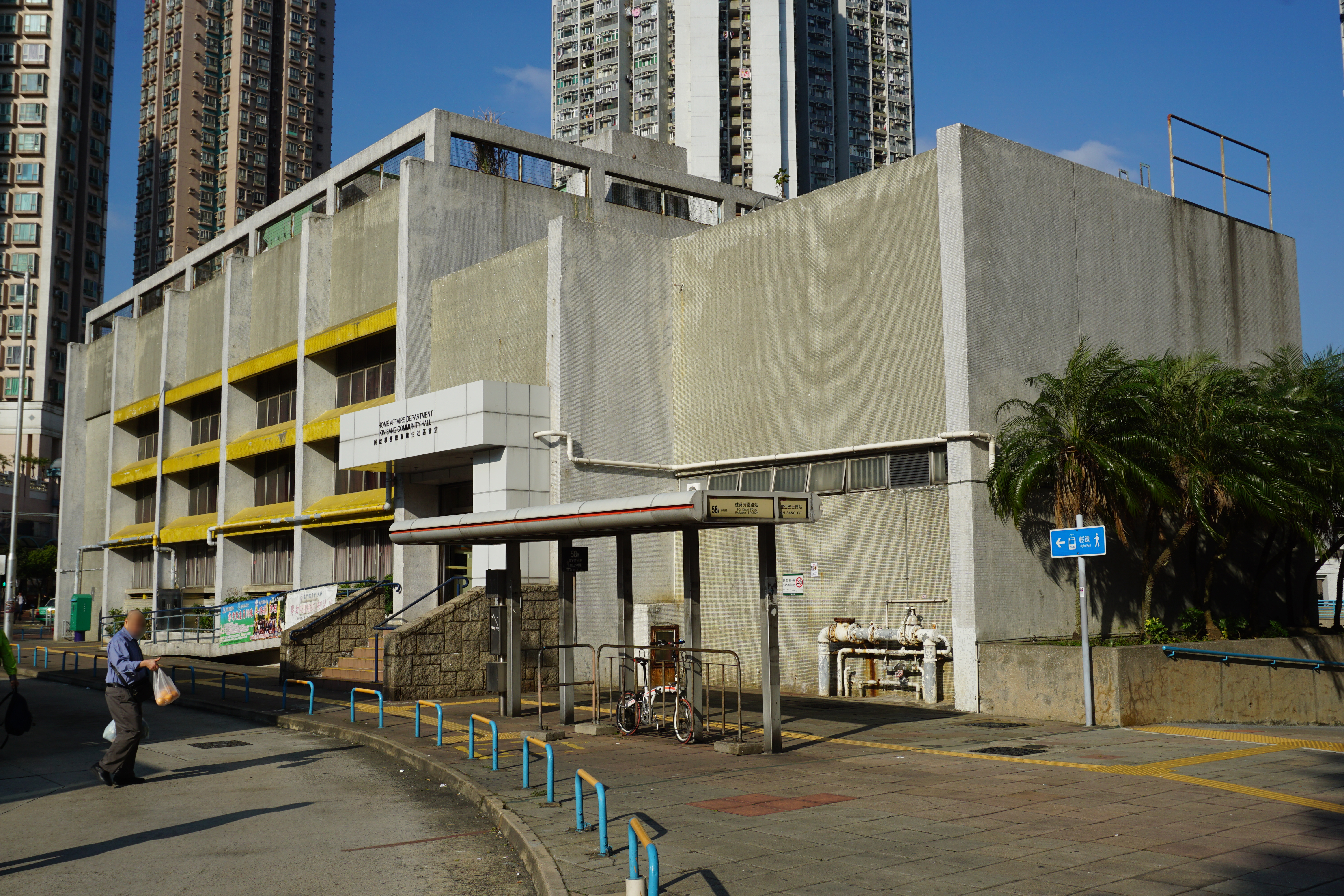 Kin Sang Community Hall in Tuen Mun, Hong Kong.